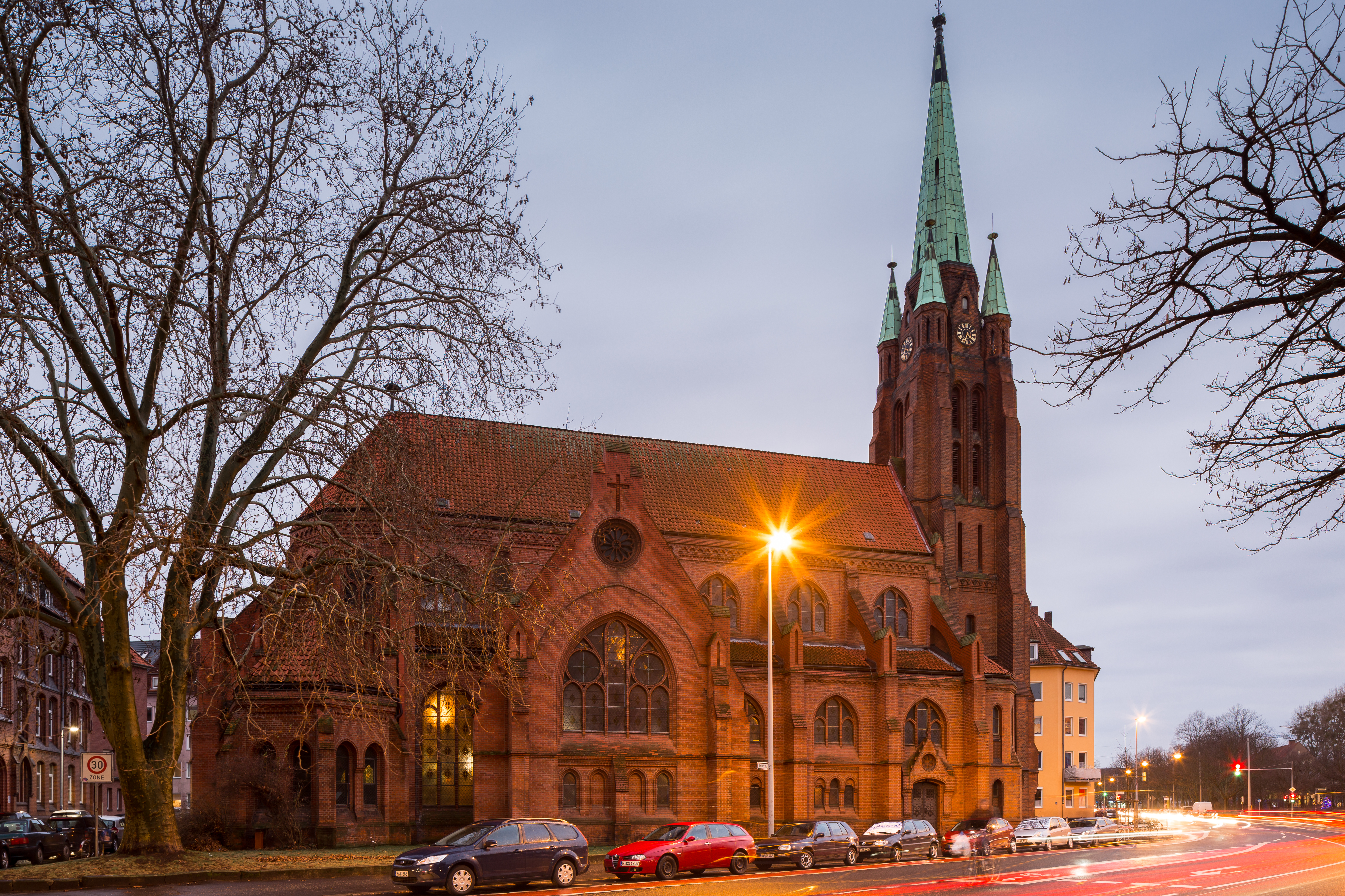 Apostelkirche church located at Celler Strasse and Gretchenstrasse in Oststadt district of Hannover, Germany.